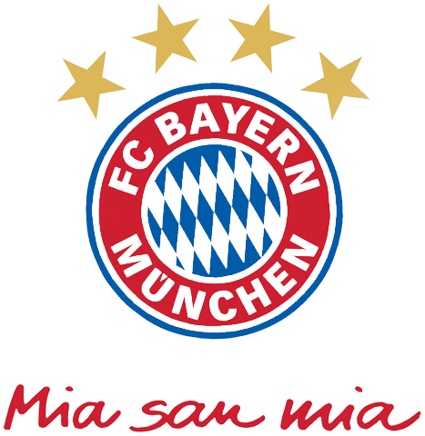 Mia San Mia